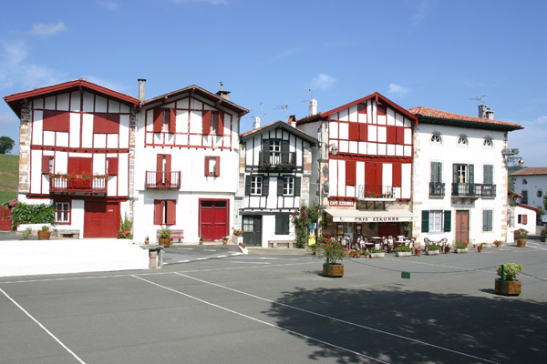 Ainhoa - the town square and Pelote fronton.